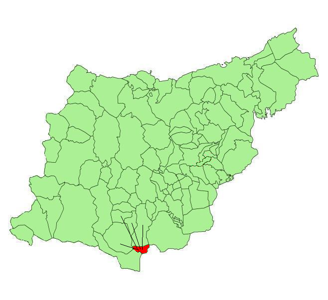 Parzonería Menor de Guipúzcoa in the province of Guipuzcoa